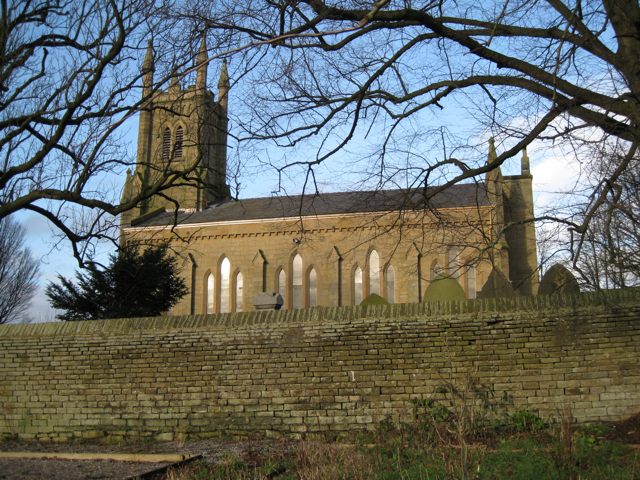 Holy Trinity parish church, Hurdsfield Road, Macclesfield, Cheshire, seen from the hillside open space off Trinity Square